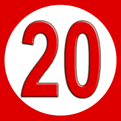 Illustration of Frank Robinson's Retired Reds Number